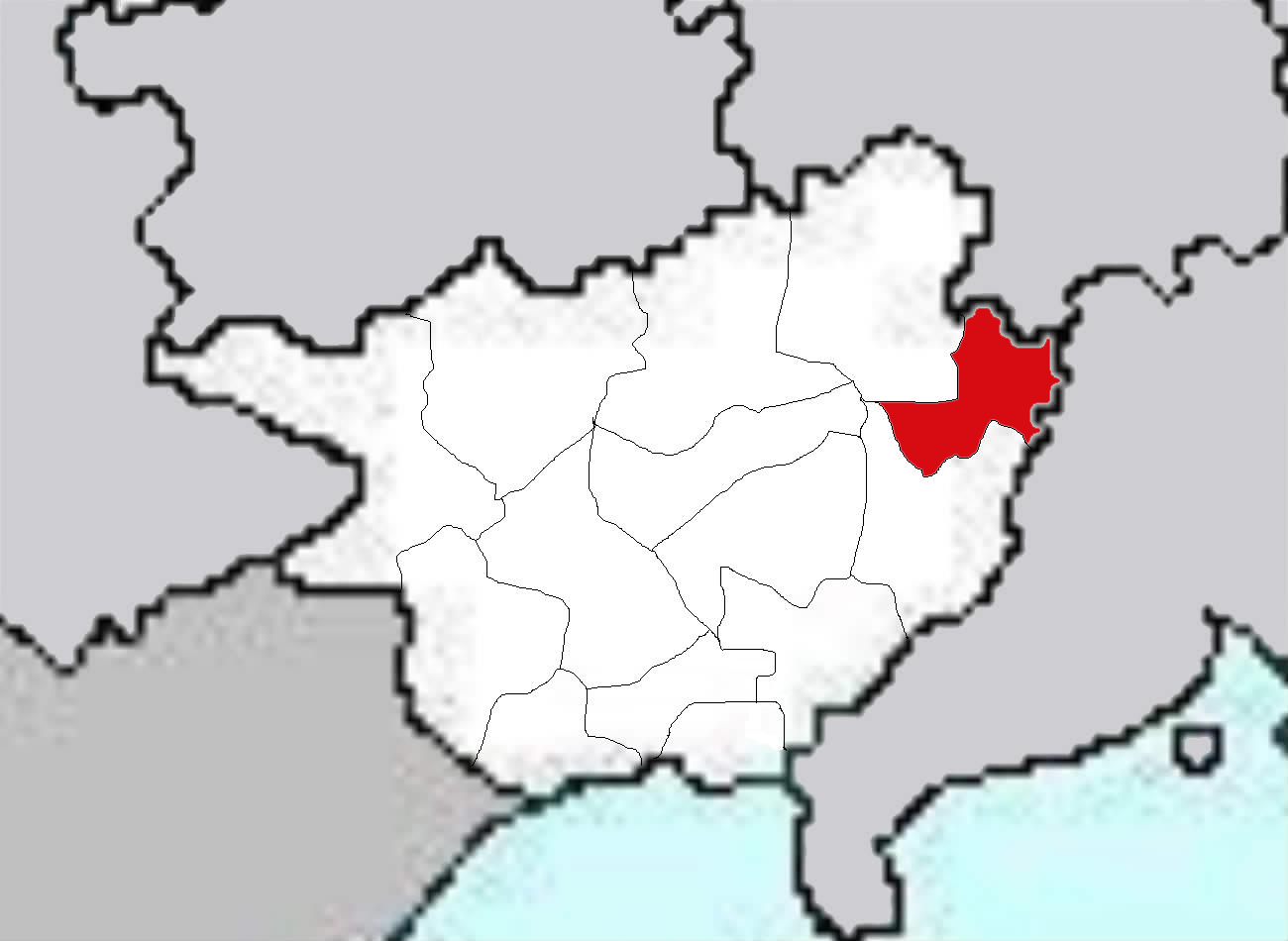 Maps of Guangxi Autonomous Region of China.